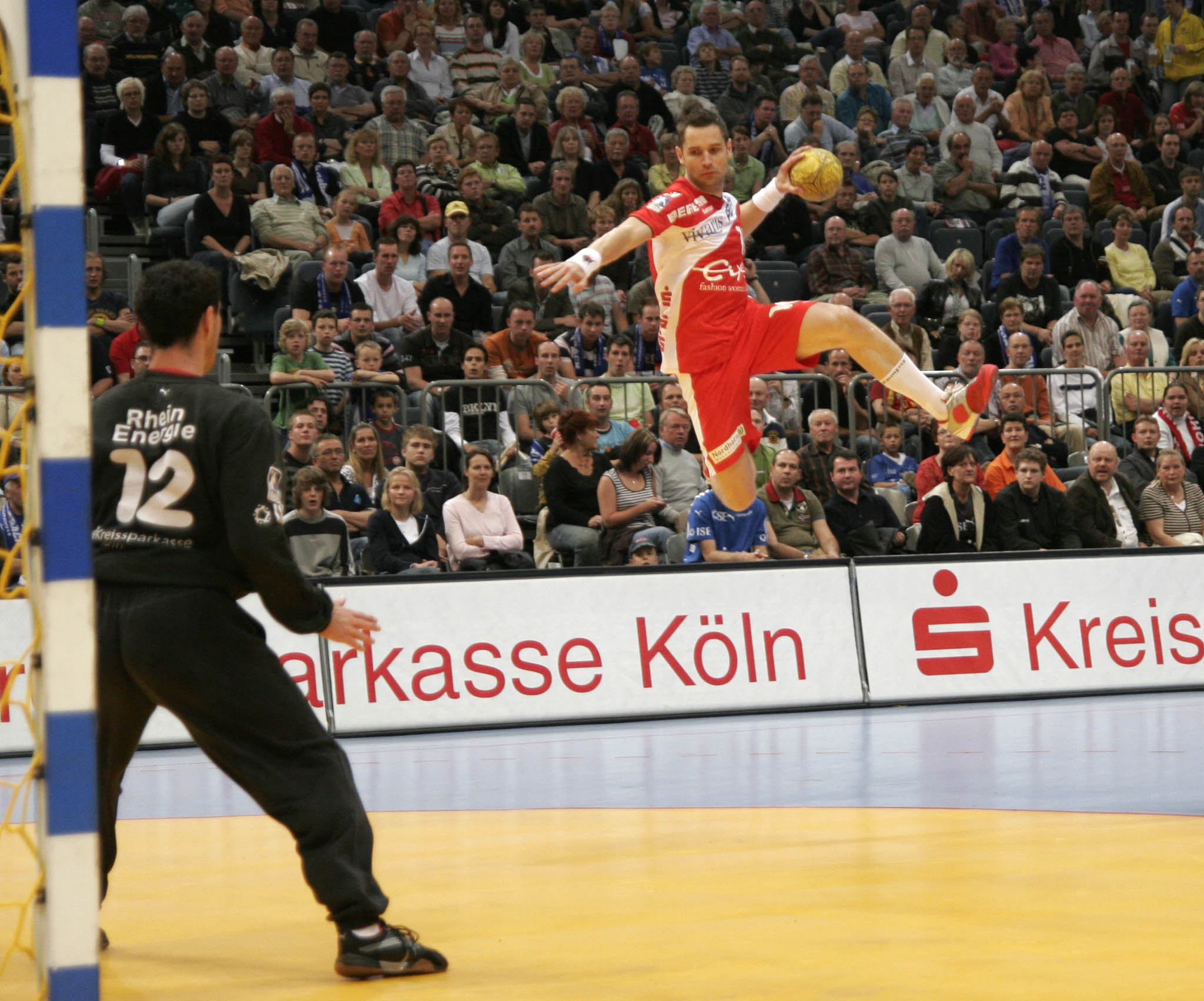 Jan Filip, the Czech Handballplayer. Picture made during the game VfL Gummersbach vers. HSG Nordhorn in Cologne (Köln-Arena)